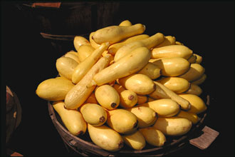 Yellow Squash.